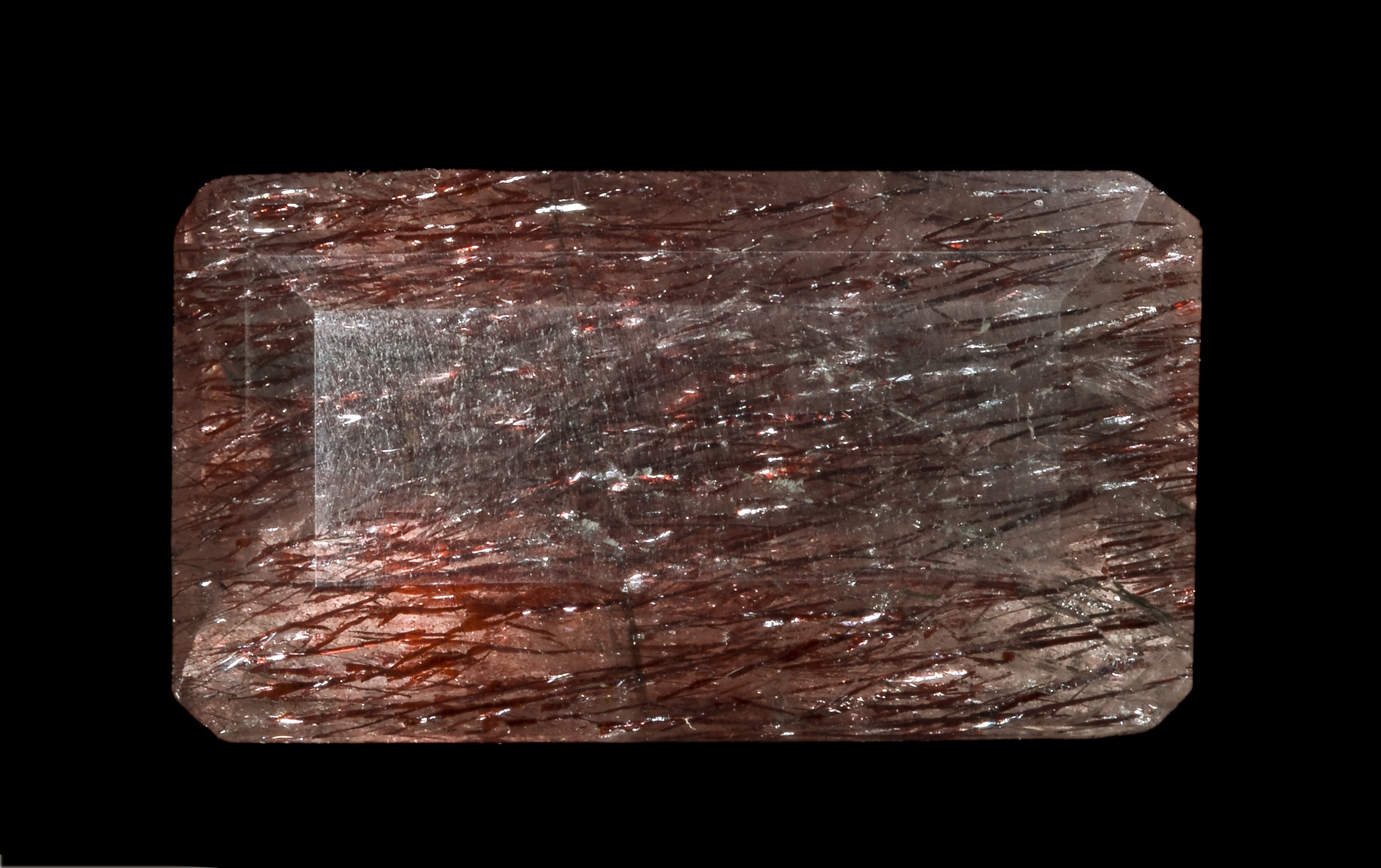 Quartz with cacoxenite - cut Locality : Minas Gerais - Brasil 15Ct13